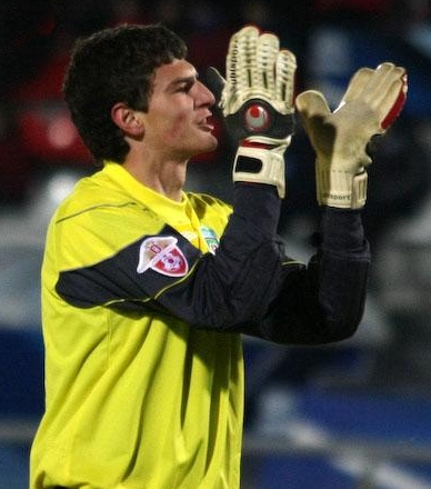 Ștefan Sicaci as a player of FC Terek